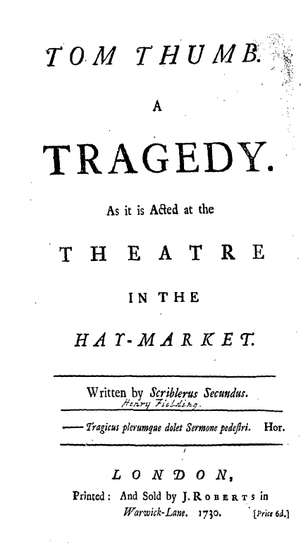 Fielding, Henry. Tom Thumb. A tragedy. As it is acted at the theatre in the Hay-Market. Written by Scriblerus Secundus. London: Printed for J. Roberts, 1730.